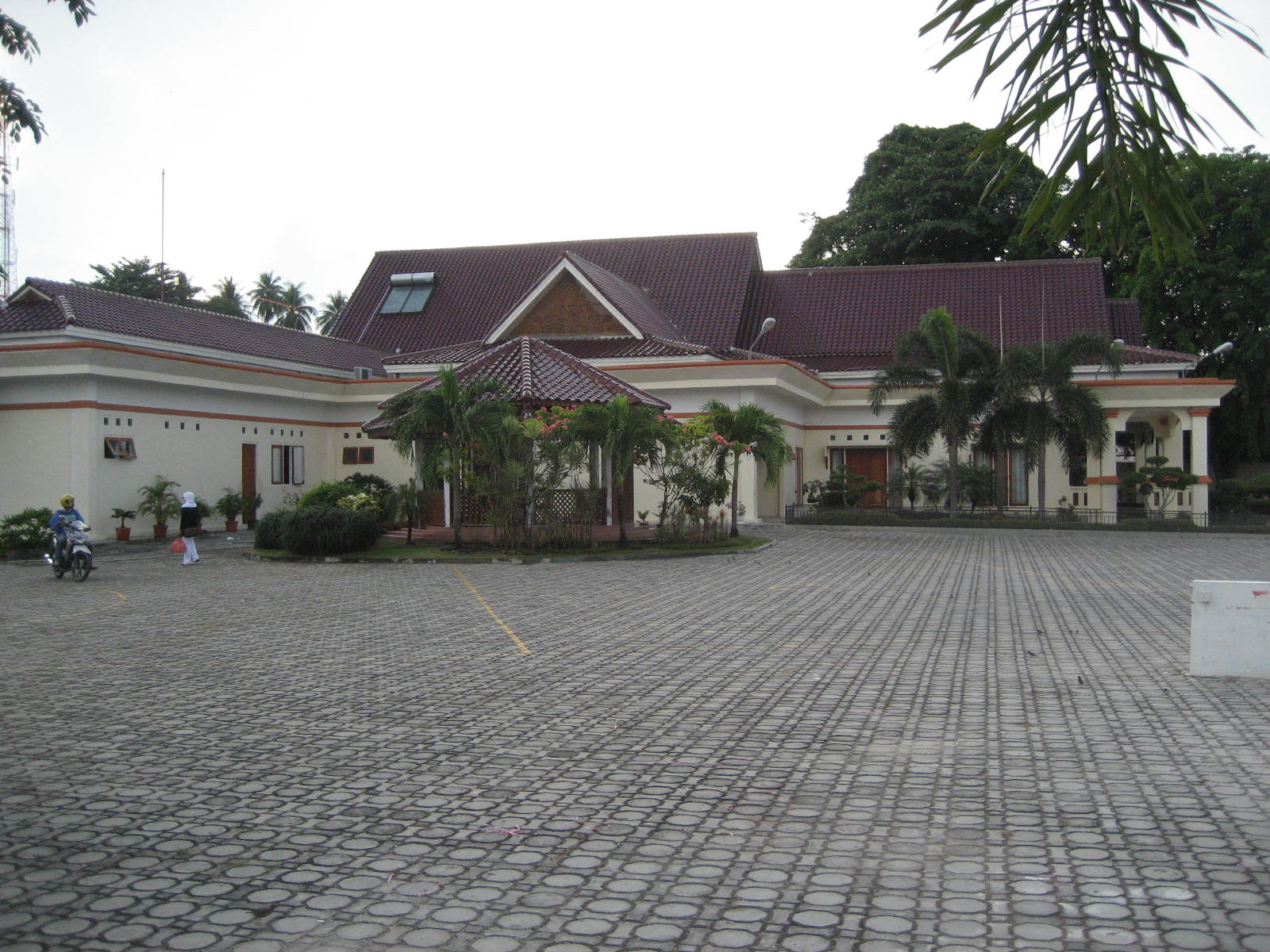 Goverment office at Karimun island of Indonesia